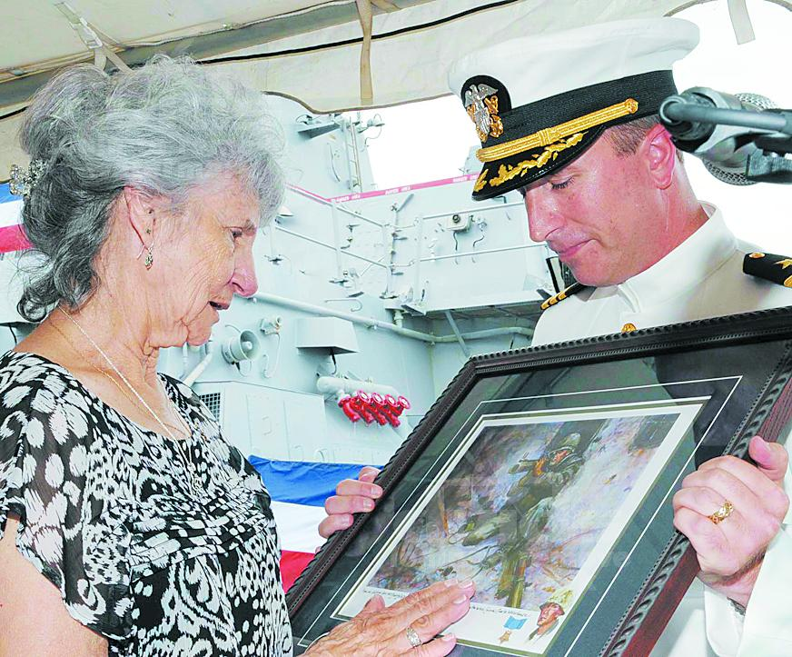 Cmdr. Brian Fort, commanding officer of the Arleigh Burke-class guided-missile destroyer USS Gonzalez, presents Dolia Gonzalez with a painting of her son, Marine Corps Sgt. Freddy Gonzalez, before turning command of the ship over to Cmdr. Lynn Acheson at Naval Station Norfolk. The ship is named after Sgt. Freddy Gonzalez and the ship's crew commissioned the painting as a gift for Dolia Gozalez' upcoming 80th birthday.